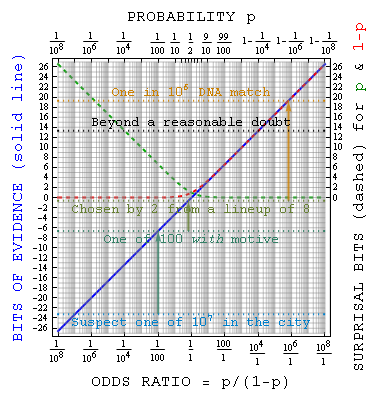 How evidence in bits might (or might not) add up to the level of confidence that you require.